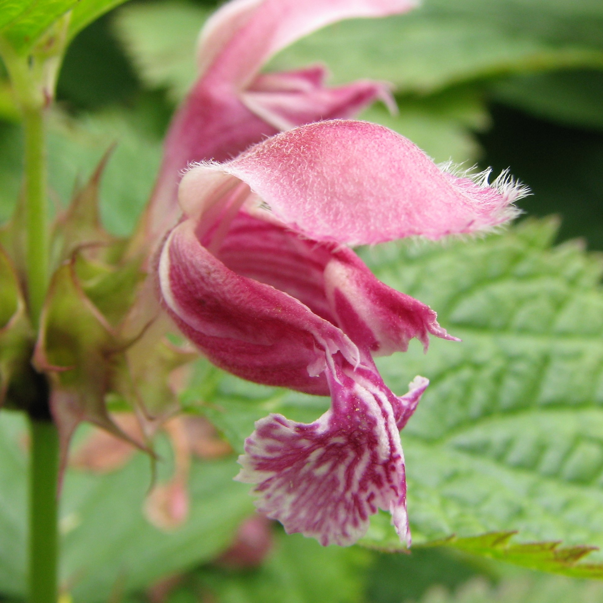 Lamium orvala, plant in flower, cultivated in Wrocław University Botanical Garden, Wrocław, Poland.